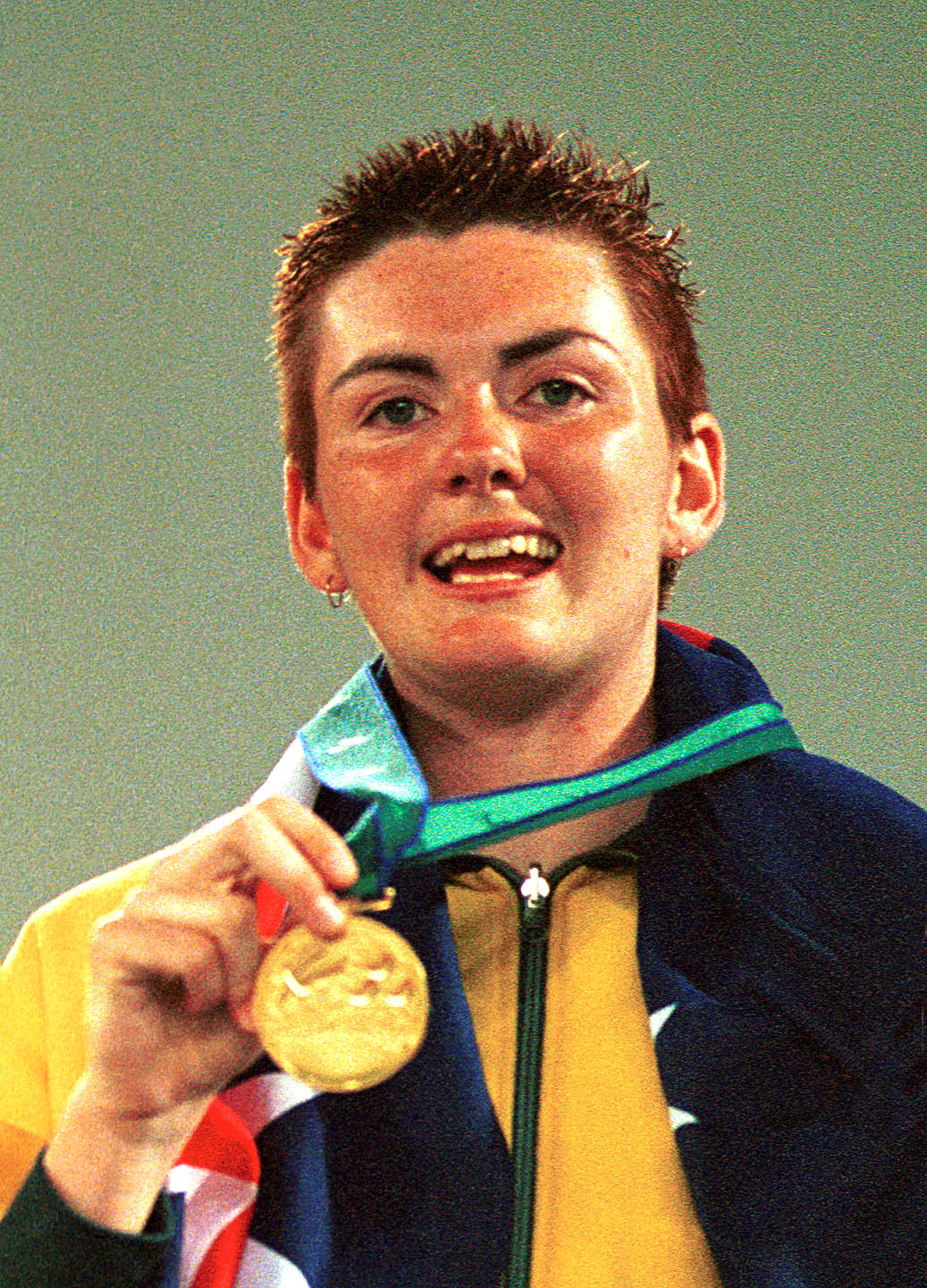 Australian track athlete Lisa McIntosh with the gold medal she won in the 200 m T38 at the 2000 Sydney Paralympic Games